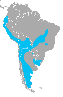 Range map for Colocolo (Leopardus colocolo), made by me with help of Map depending on the range map at IUCN red list.